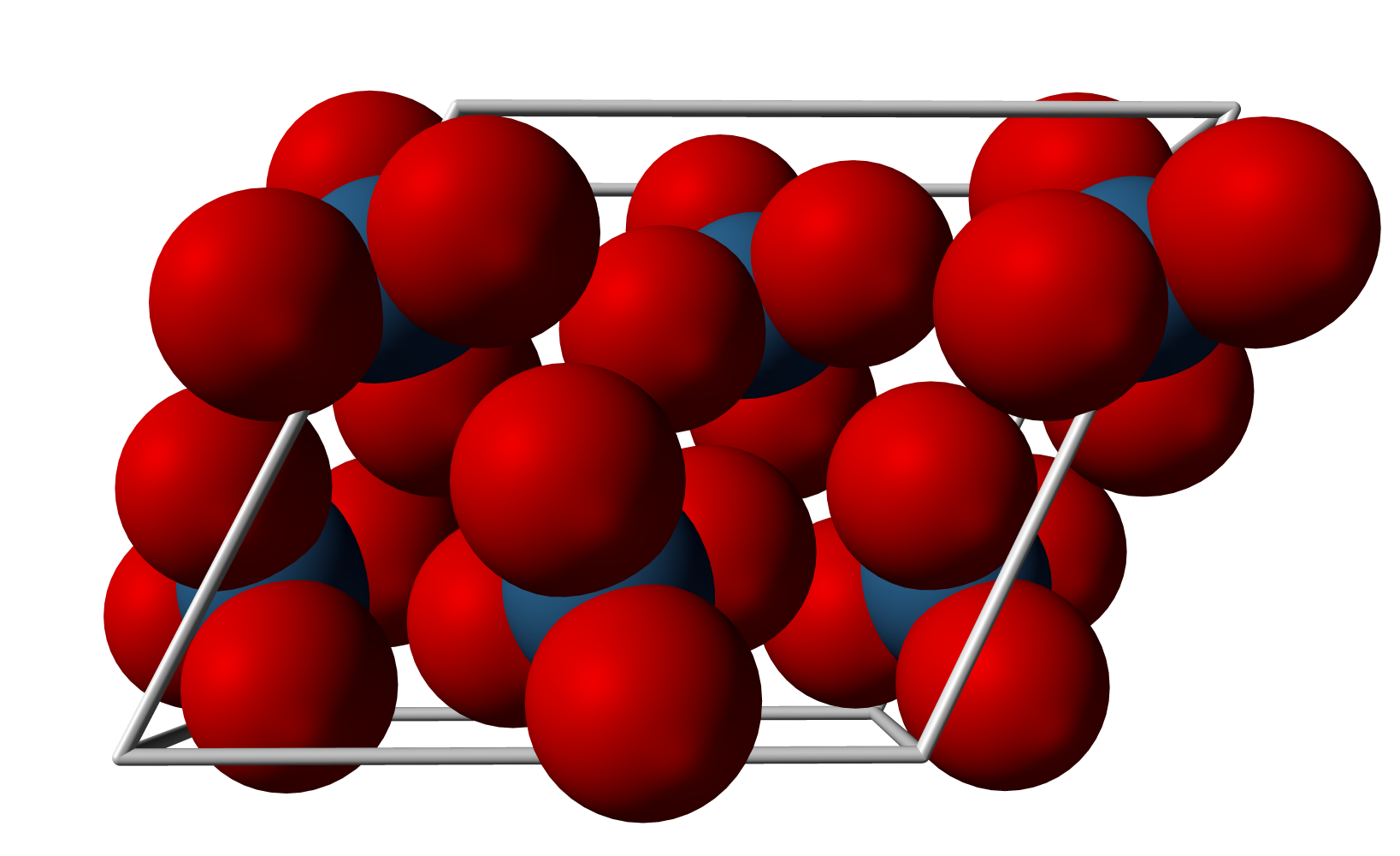 Space-filling model of the unit cell of osmium tetroxide, OsO4. X-ray crystallographic data from Acta Cryst. (1976). B32, 1334-1337.